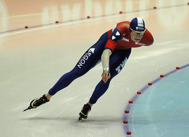 Sven Kramer at the World Championships 2007 in Heerenveen.